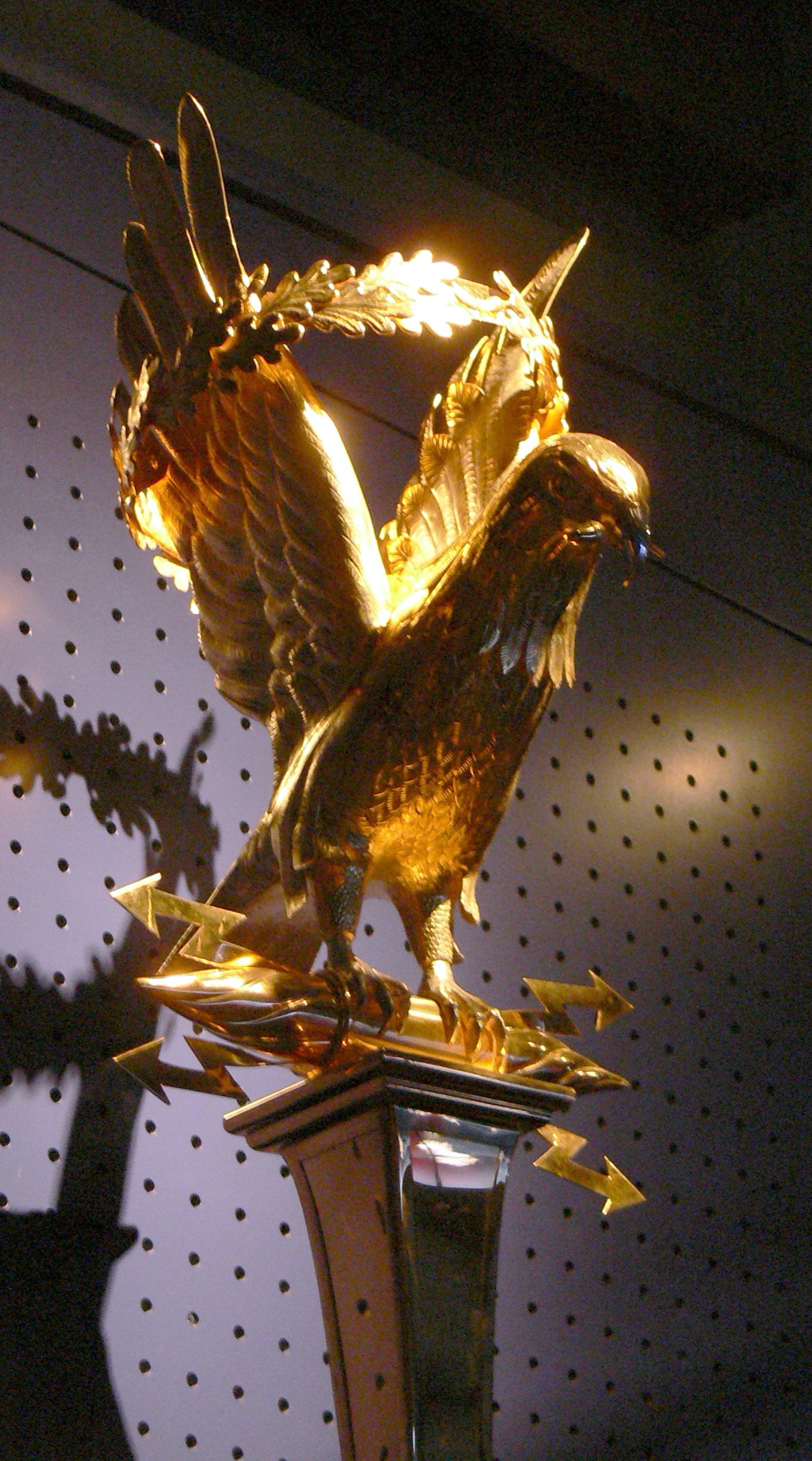 Petronell ( Lower Austria ). Roman Museum: Legion's eagle ( replica ).